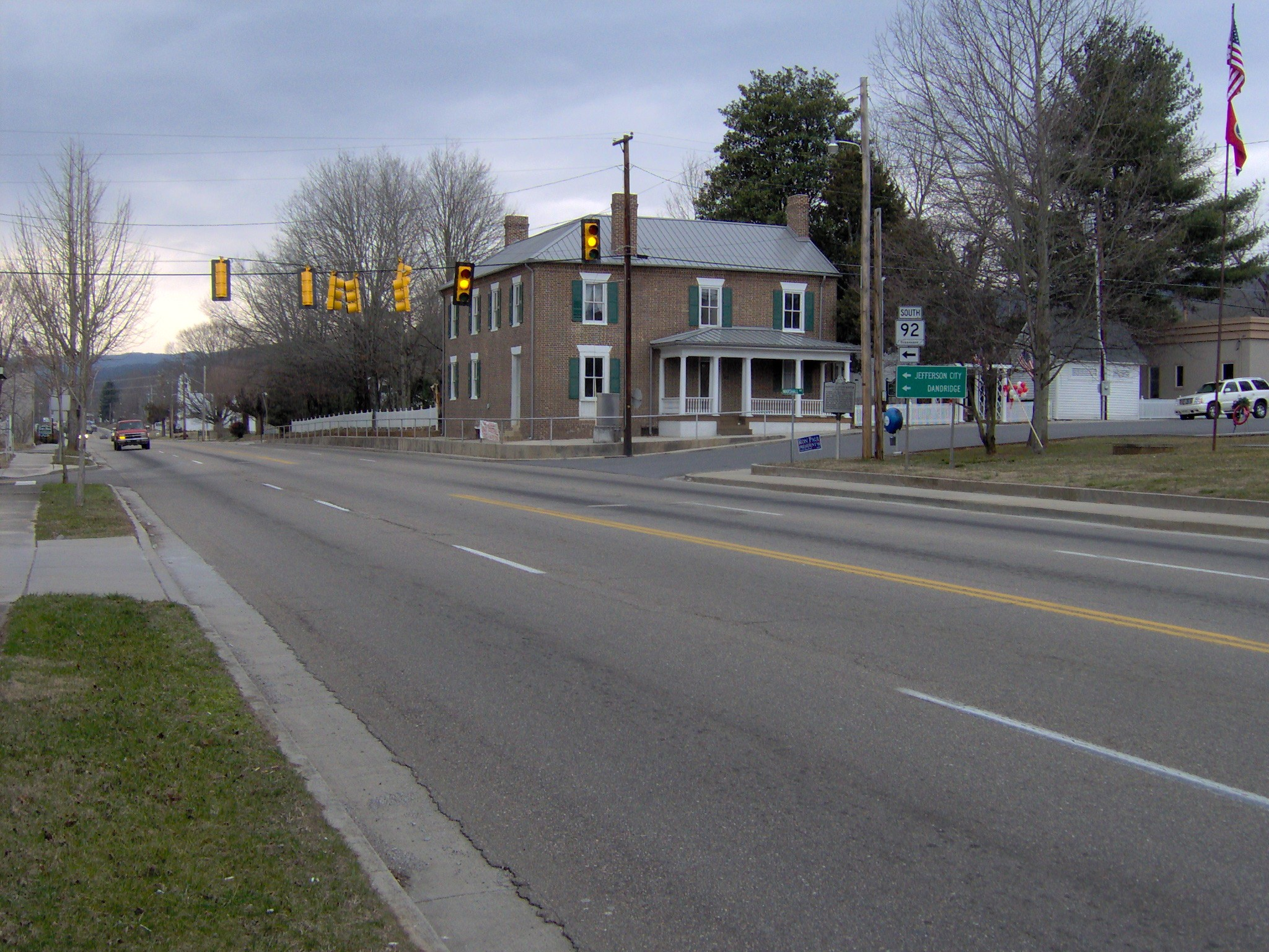 Rutledge Pike (US-11W) in Rutledge, Tennessee, in the southeastern United States. The structure at center is the Nance Building, built in the mid-1800s and placed on the National Register of Historic Places in 1998.